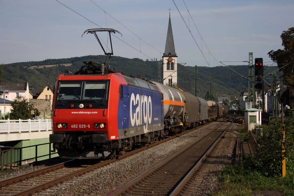 SBB Cargo TRAXX F140 AC1 locomotive 482 029-6 passes through Boppard, Germany